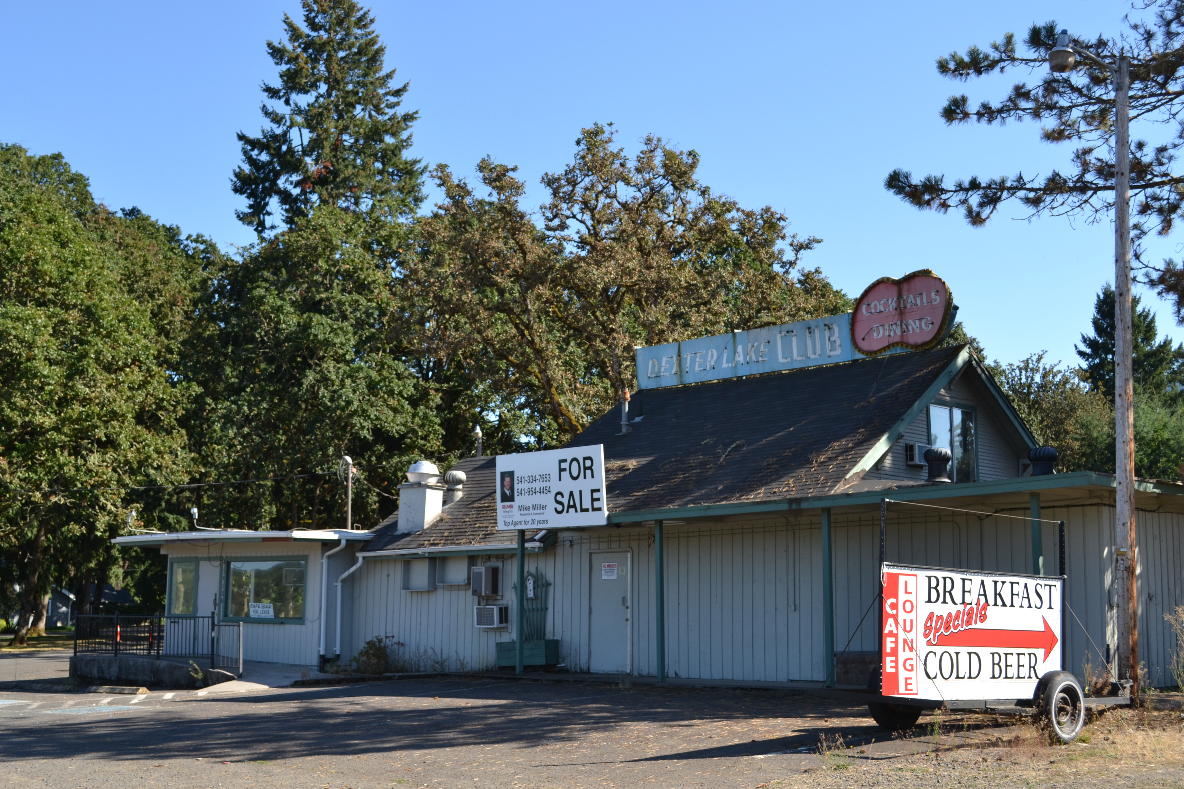 Dexter Lake Club (Dexter, Oregon) today. Featured in Animal House.